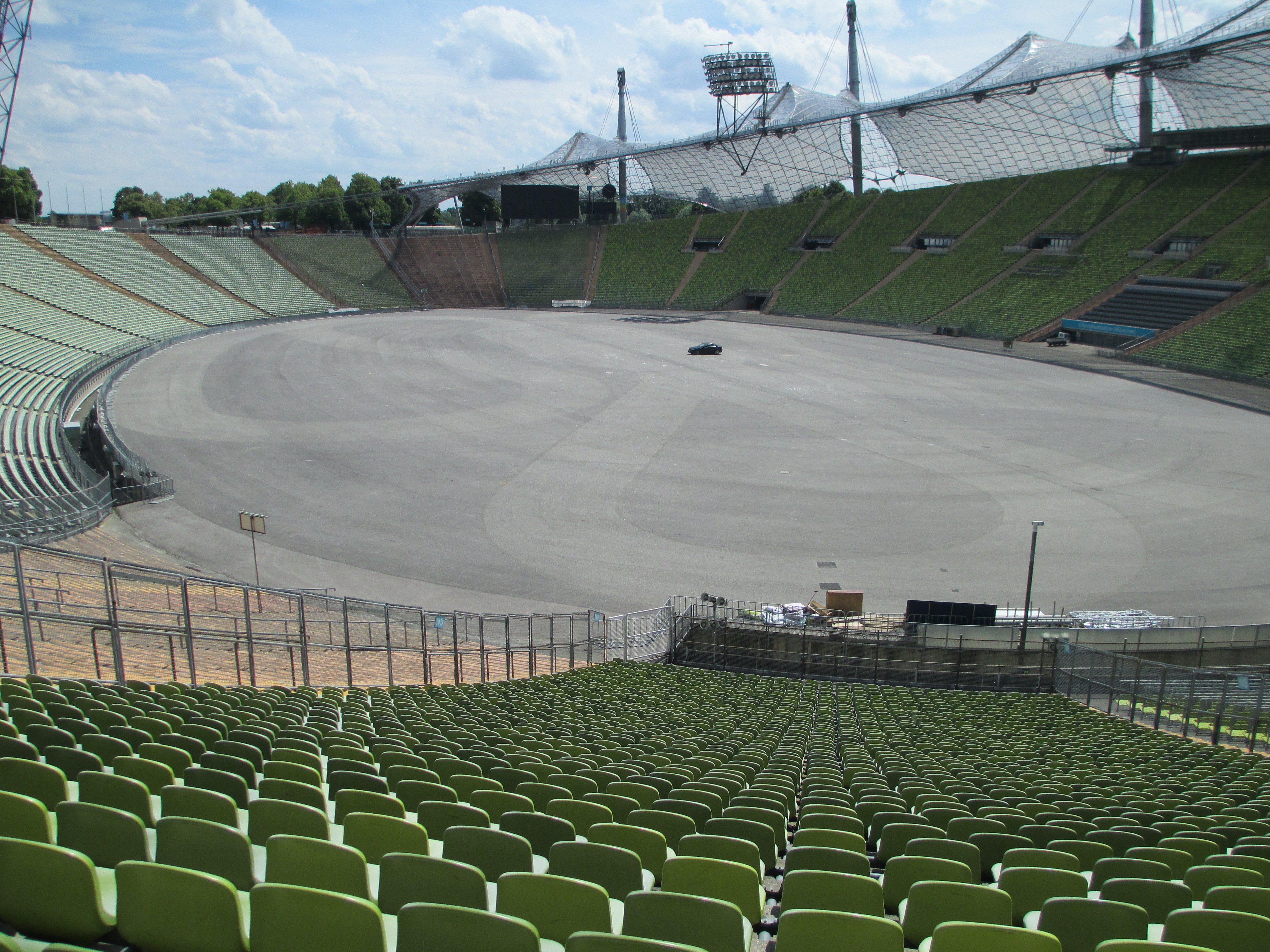 Olympic Stadium, Munich